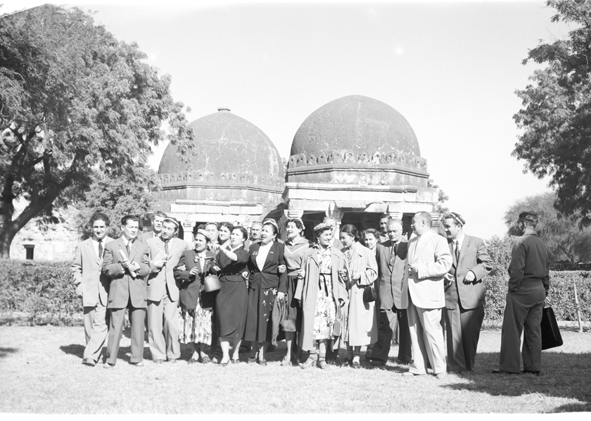 Theosophical Society Banaras/October,1955,A32a Dr. Annie Besant.